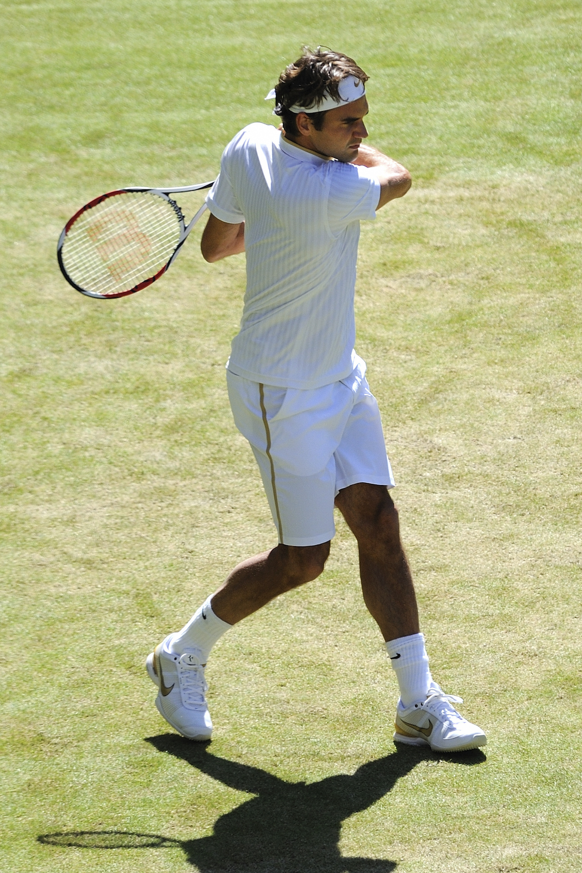 Roger Federer against Guillermo García-López in the 2009 Wimbledon Championships second round